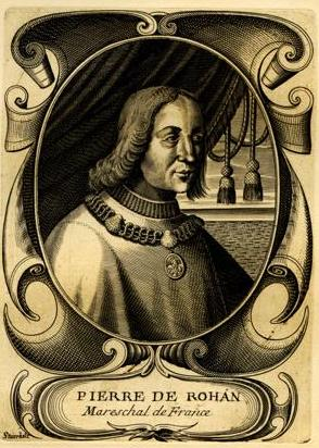 GRAVURE SUR CUIVRE SUR PAPIER VERGÉ REPRÉSENTANT PIERRE DE ROHAN, DIT LE MARÉCHAL DE GIÉ, NÉ AU CHÂTEAU DE MORTIERCROLLES A SAINT-QUENTIN-LES-ANGES, MORT A PARIS - F.STUERHELT - XVIIe s.